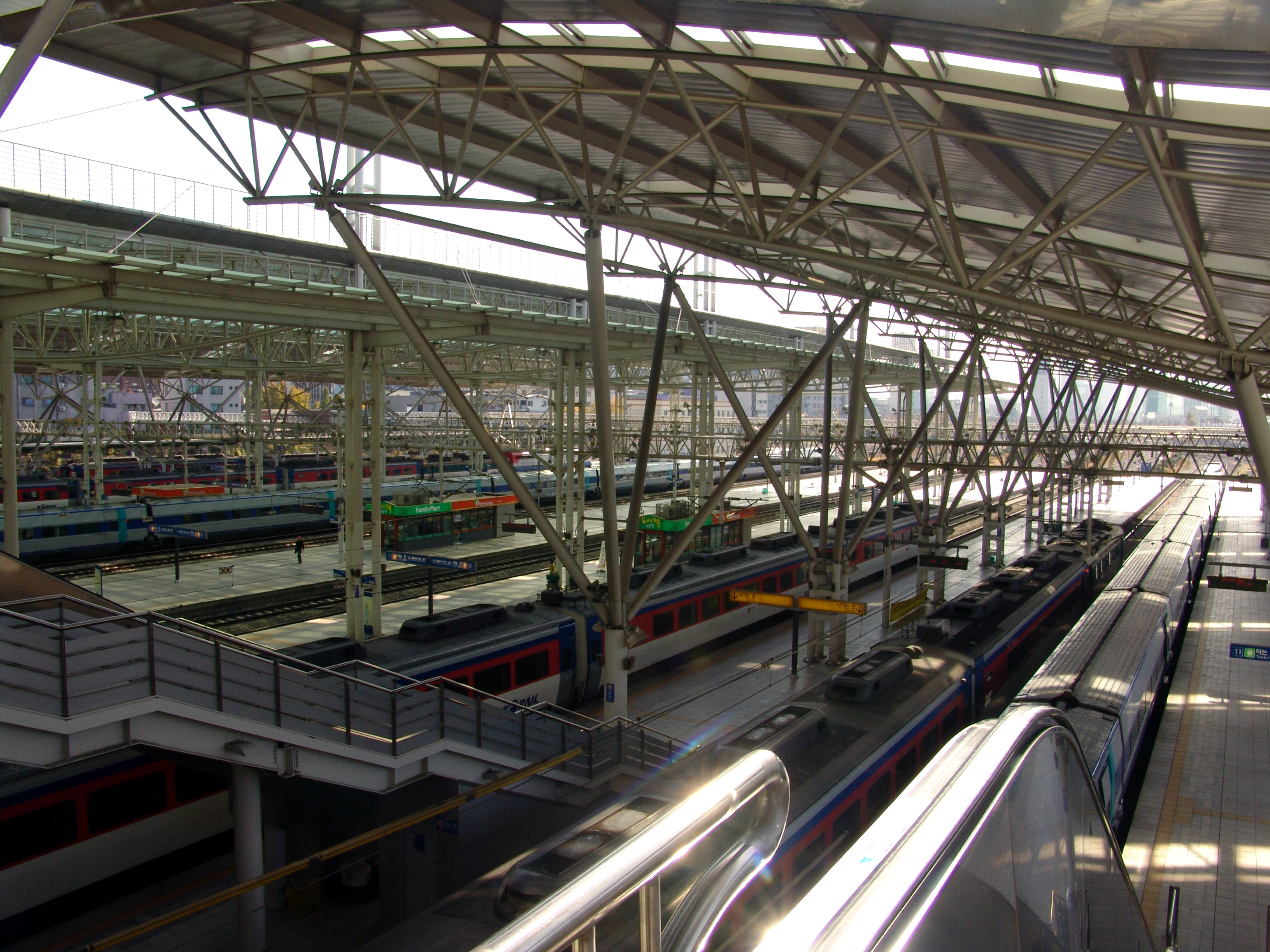 Part of the tracks at Seoul Station. I took the picture